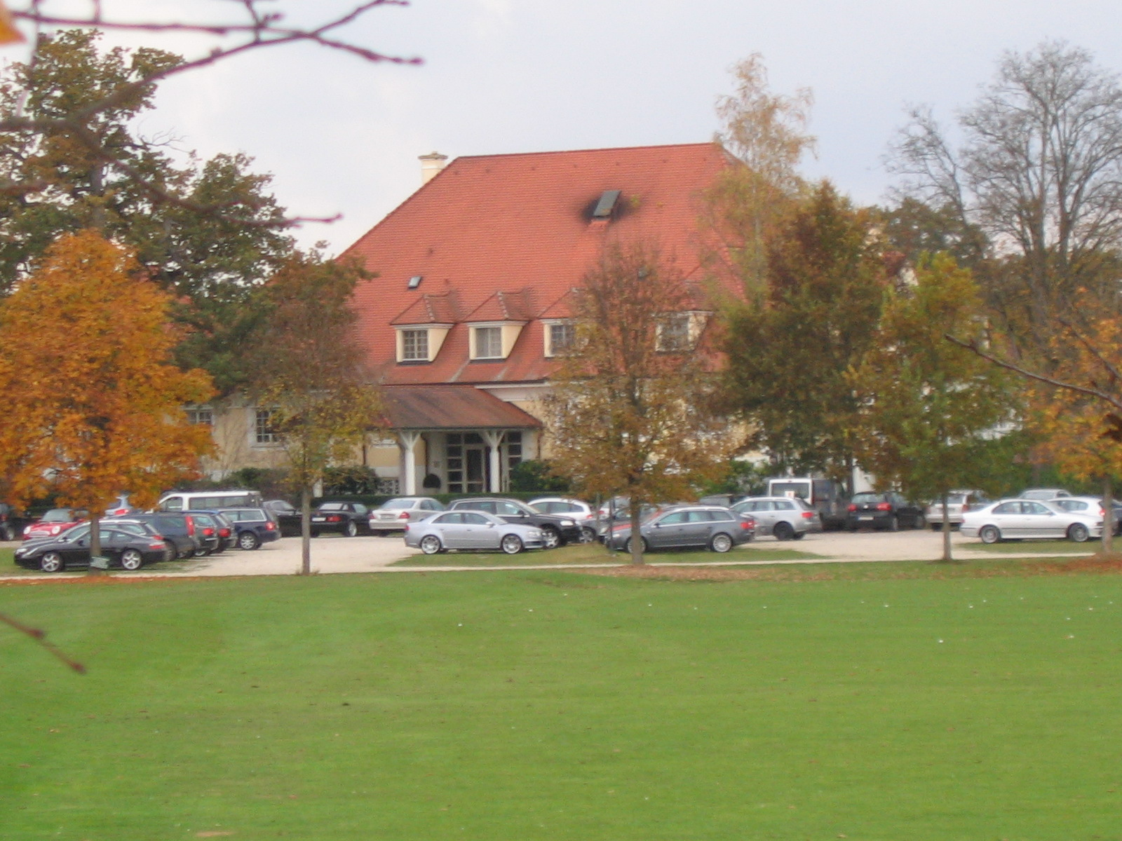 Das Clubheim am Goldplatz von Gut Rohrenfeld